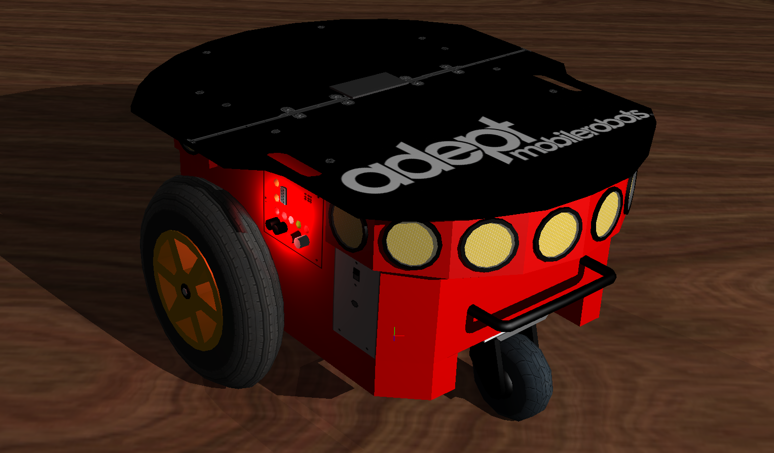 Pioneer 3-DX robot of Adept Mobile Robots simulated in Webots